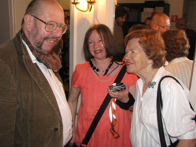 Leszek Engelking (b. February 2, 1955 in Bytom, Poland) – Polish poet, short-story writer, critic, essayist, scholar, and translator, and Maja Chadryś-Engelking (b. 1955), and Danuta Ćirlić-Straszyńska (b. 1930), Polish translator.